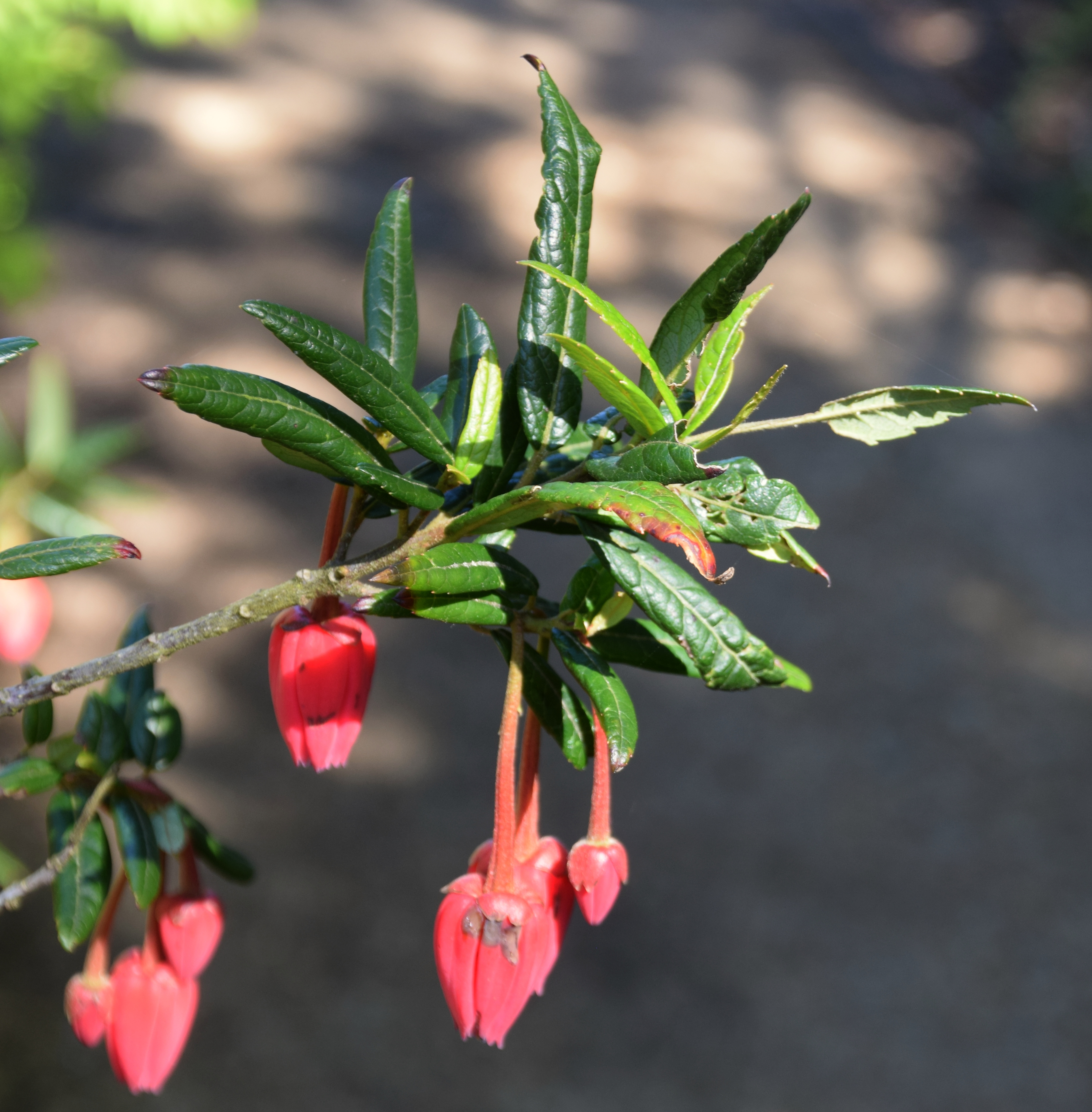 Crinodendron hookerianum in Dunedin Botanic Garden, Dunedin, New Zealand